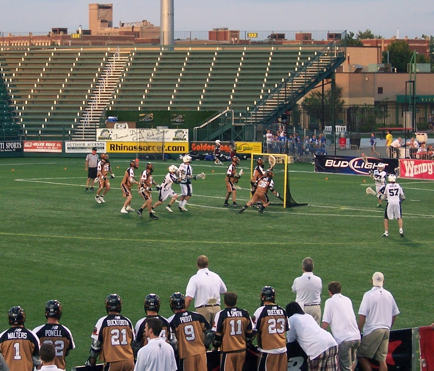 A lacrosse match between the Rochester Rattlers (orange) and the Long Island Lizards (white) at PAETEC Park in Rochester, New York.